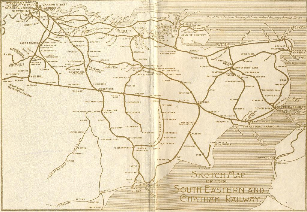 Source - "The South Eastern & Chatham Railway Society" (SECSOC) website, from this page Title given is "Peeps at Great Railways - The South East & Chatham", and it states that it was "Published by A & C Black 1912". Thus for copyright, it was published pre 1923 and presumably ended up stateside where Wikipedia's servers are. Description, a map of the South Eastern and Chatham Railway, a railway company in England (UK) that was in existence from 1899 to 1923.